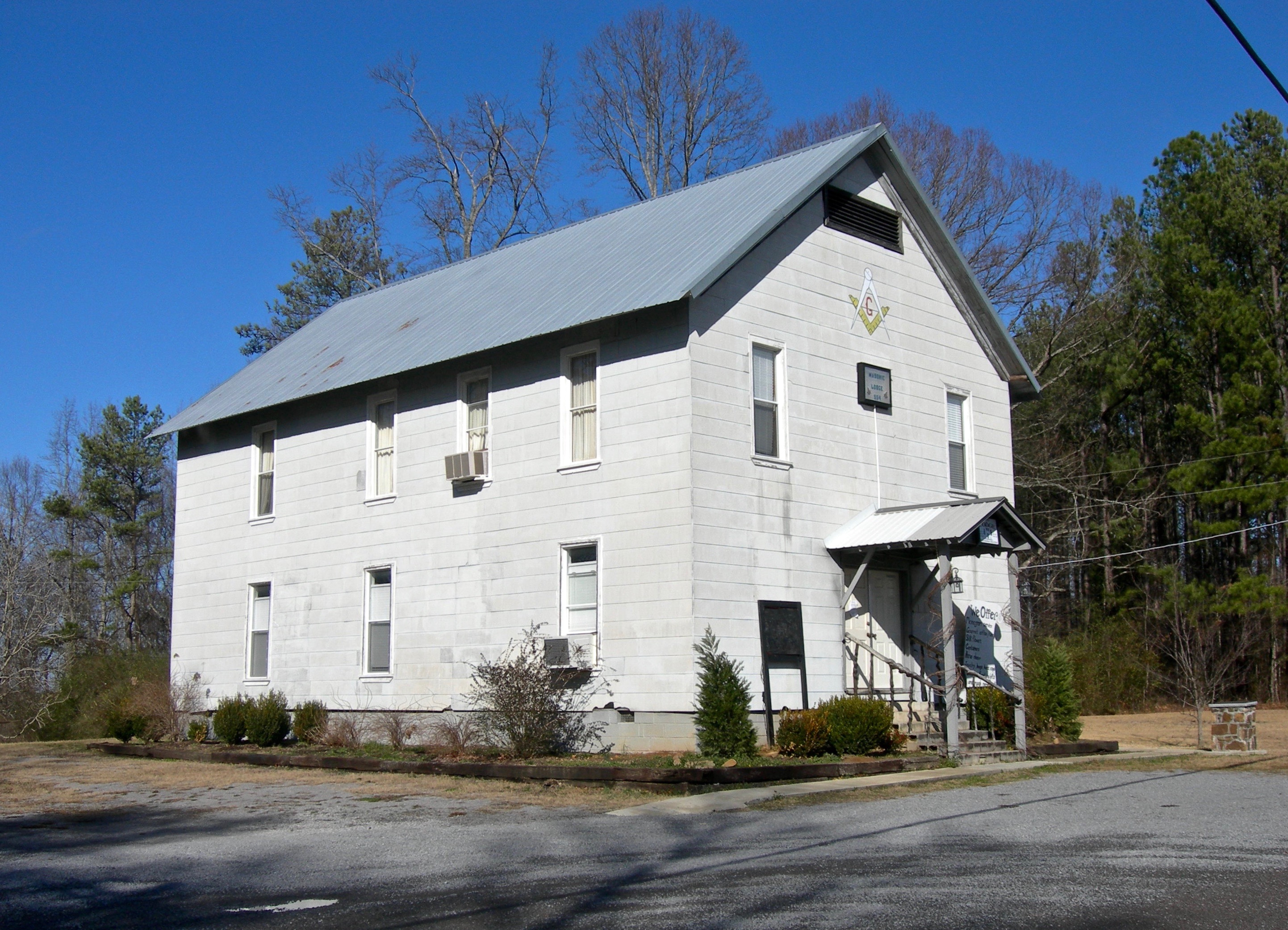 Crane Hill Masonic Lodge in Crane Hill, Alabama. Constructed in 1904 and listed on the National and Alabama Registers of Historic Places.